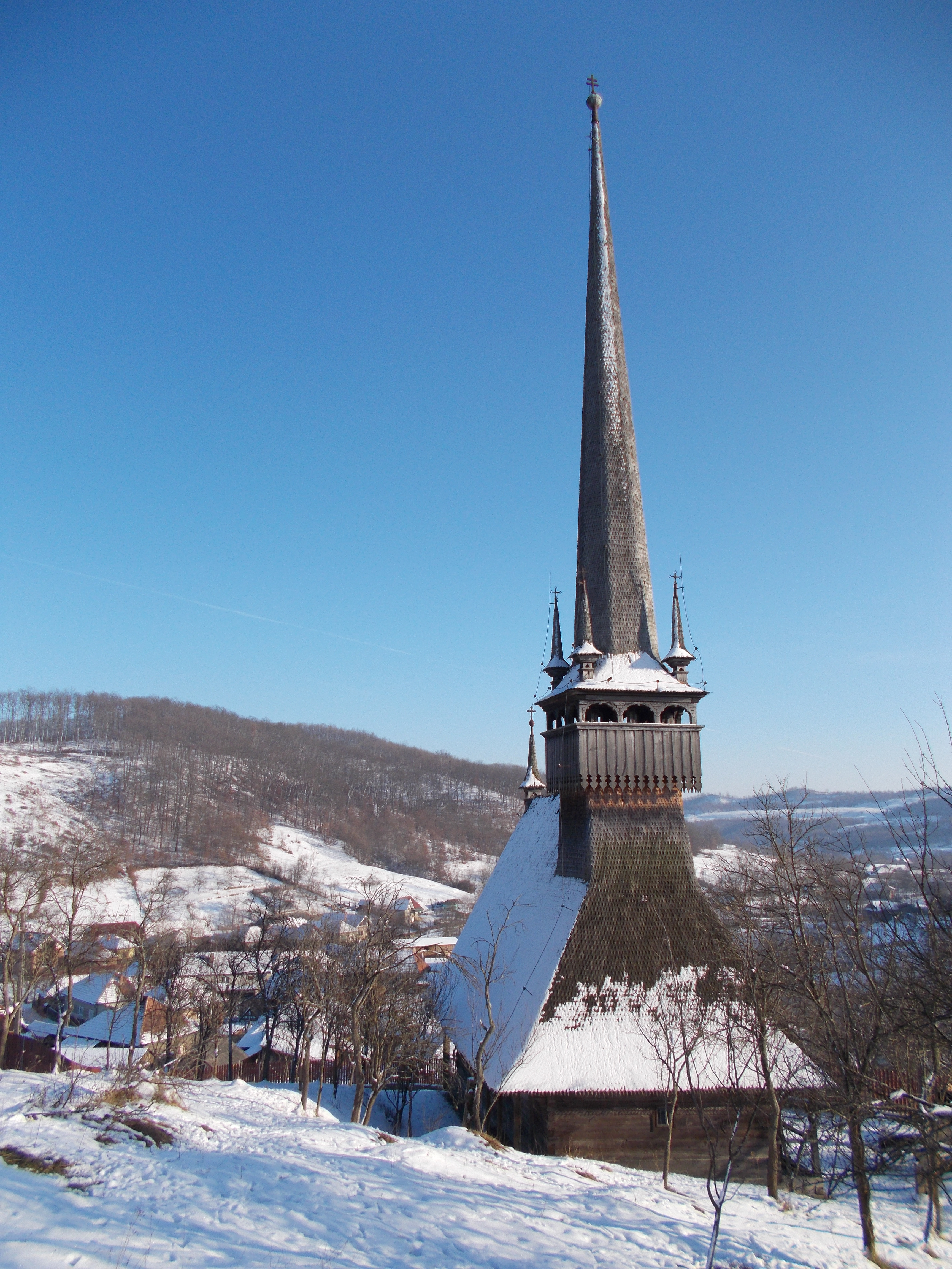 Wooden church in Fildu de Sus, Sălaj County, Romania